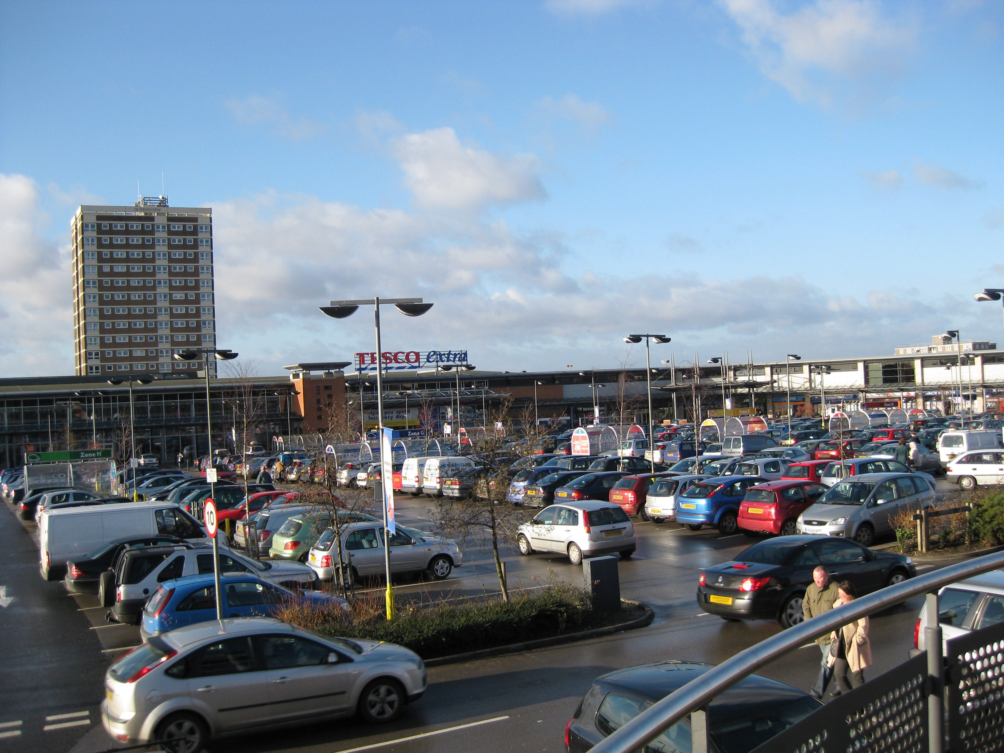 Seacroft Shopping Centre, Leeds LS14.